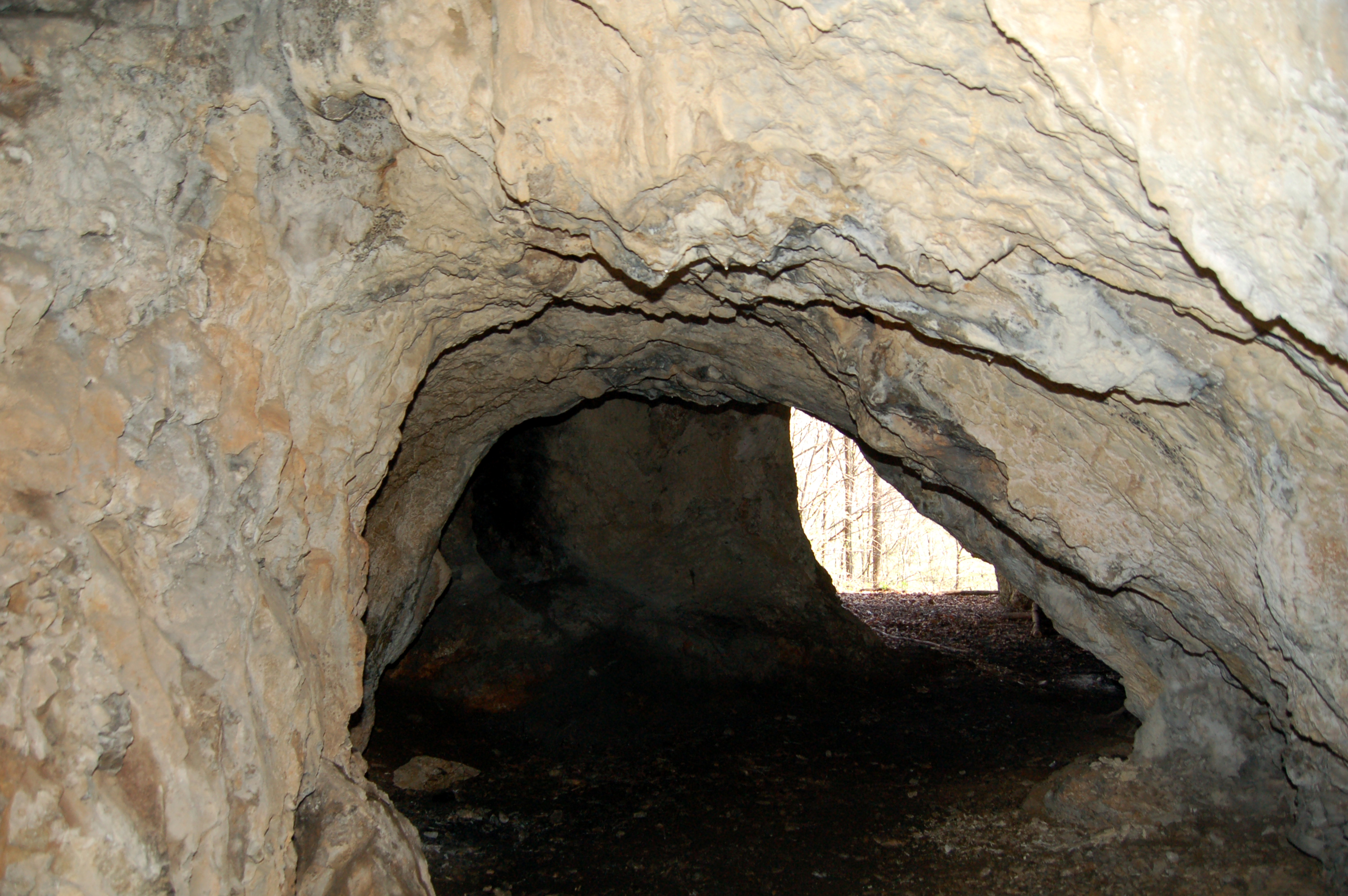 Inside the Hallourhöhle, a cave in Lower Austria. View from the upper part of the cave to the cave entry.